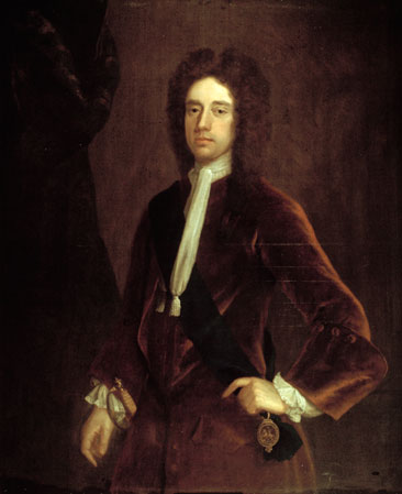 James Douglas, 2nd Duke of Queensberry (1662-1711)